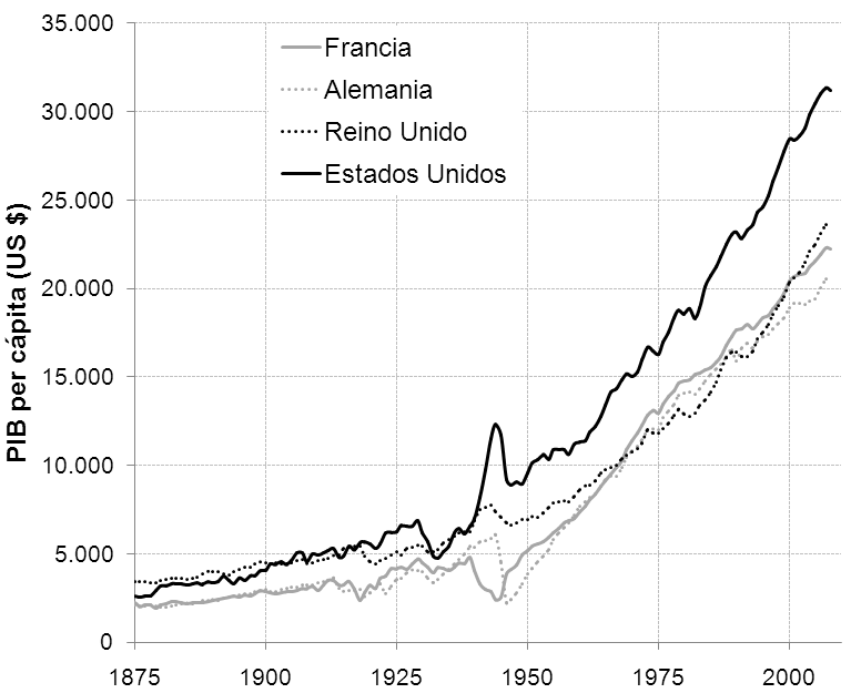 Comparative "GDP per capita" for USA, Germany, France and UK, based on [ World Population, GDP and Per Capita GDP, 1-2010 AD]